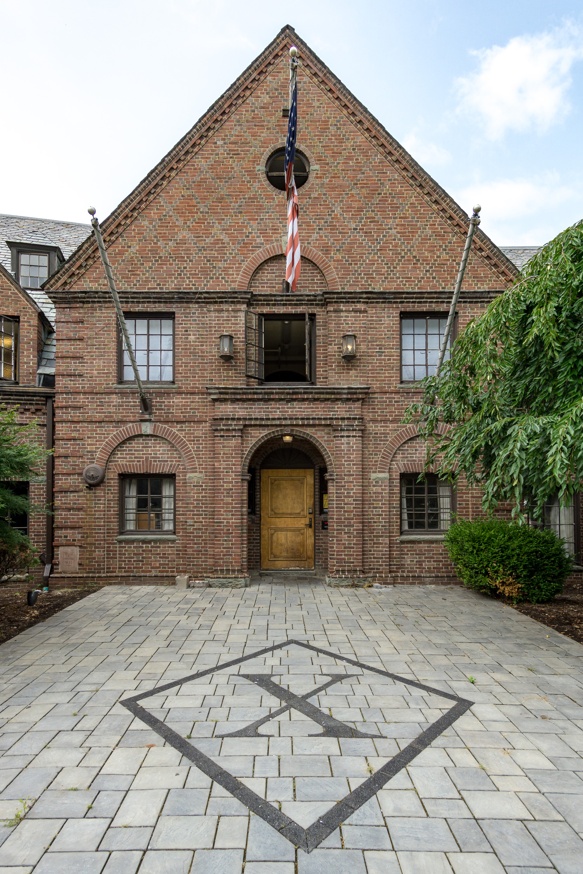 Psi Upsilon. 2 Forest Park Lane. Cornell University, Ithaca, New York